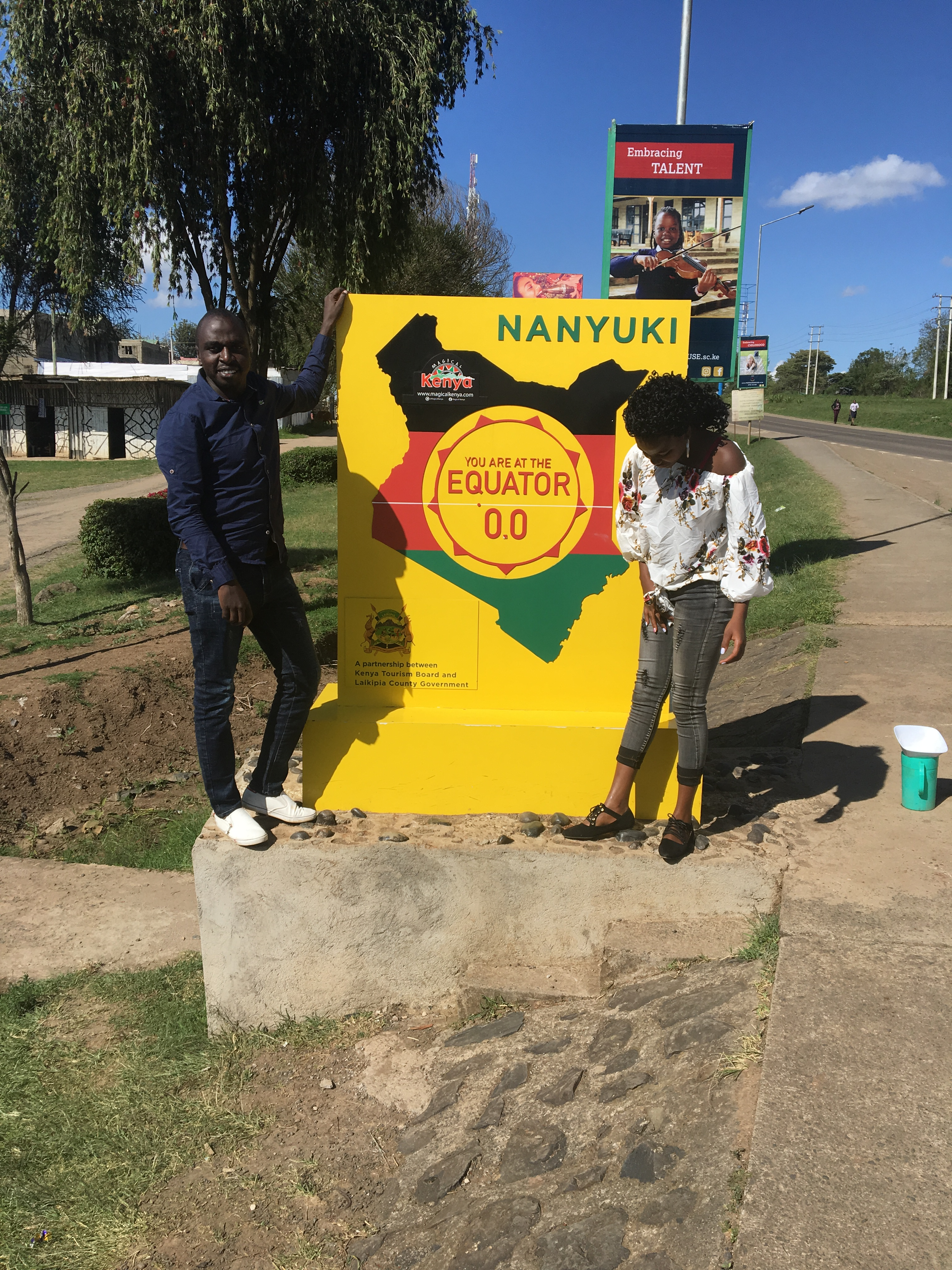 This is an image with the theme "Play" from: Kenya